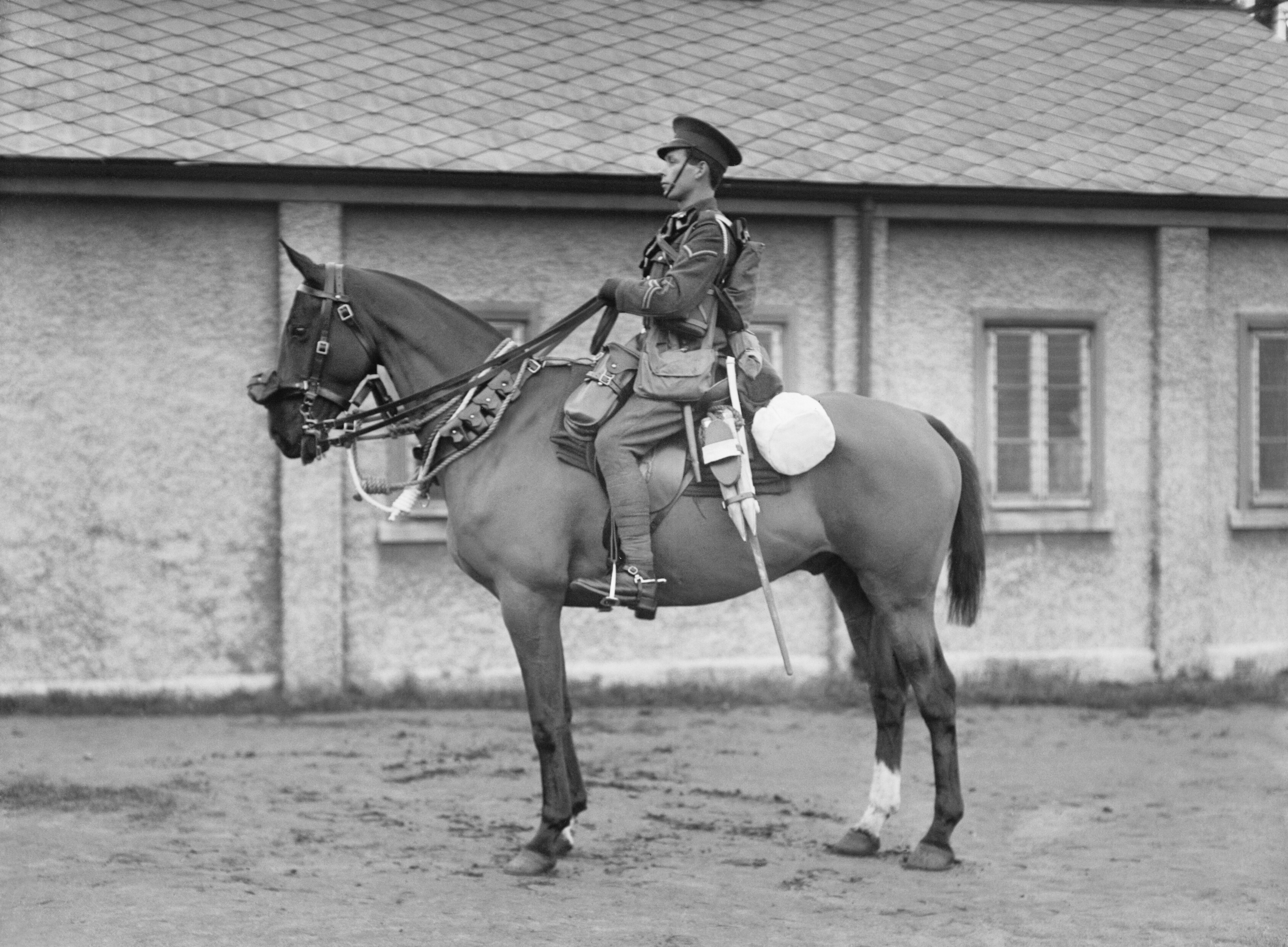 The British Army on the Home Front, 1914-1918 Cavalry trooper in marching order.